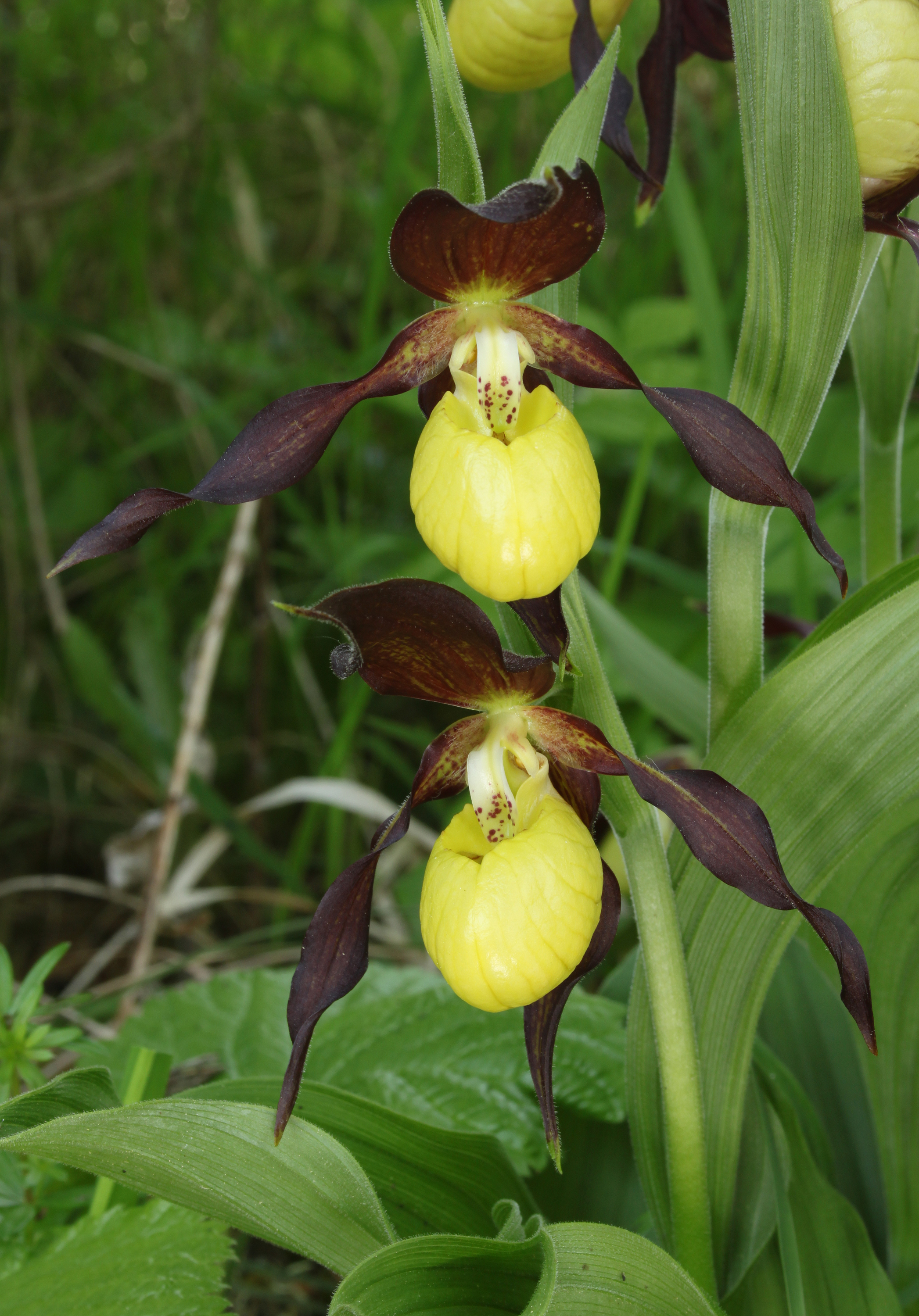 Lady's-Slipper Orchid, Cypripedium calceolus, Family: Orchidaceae, Location: Germany, Blaubeuren, Beiningen. Rare species therefore only area geotagging.